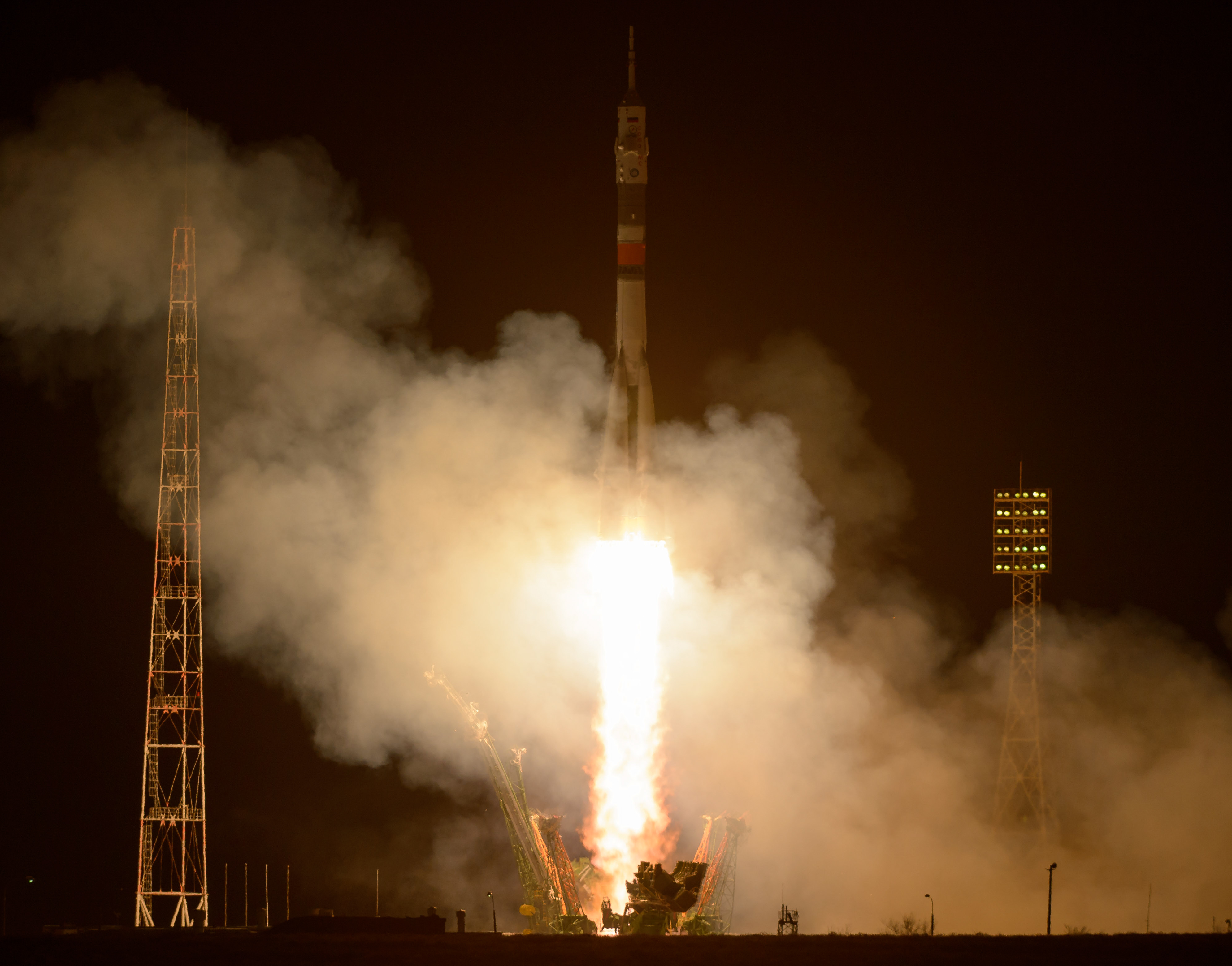 The Soyuz MS-03 spacecraft launches from the Baikonur Cosmodrome with Expedition 50 crewmembers NASA astronaut Peggy Whitson, Russian cosmonaut Oleg Novitskiy of Roscosmos, and ESA astronaut Thomas Pesquet from the Baikonur Cosmodrome in Kazakhstan, Friday, Nov. 18, 2016, (Kazakh time) (Nov 17 Eastern time). Whitson, Novitskiy, and Pesquet will spend approximately six months on the orbital complex.